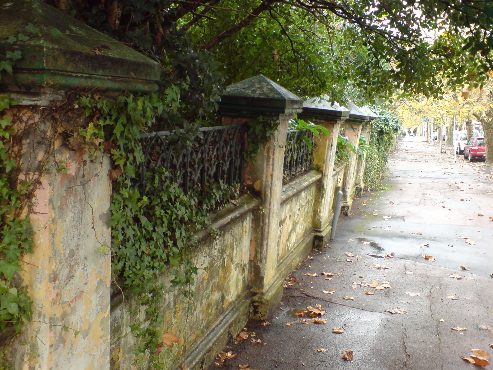 A fence and retaining wall on a street in Freemans Bay, Auckland City, New Zealand. The earth pressure behind it has slowly started to cause leaning of this wall (note that the earth behind it reaches almost up to the height of the fence, and slopes upwards even further behind).